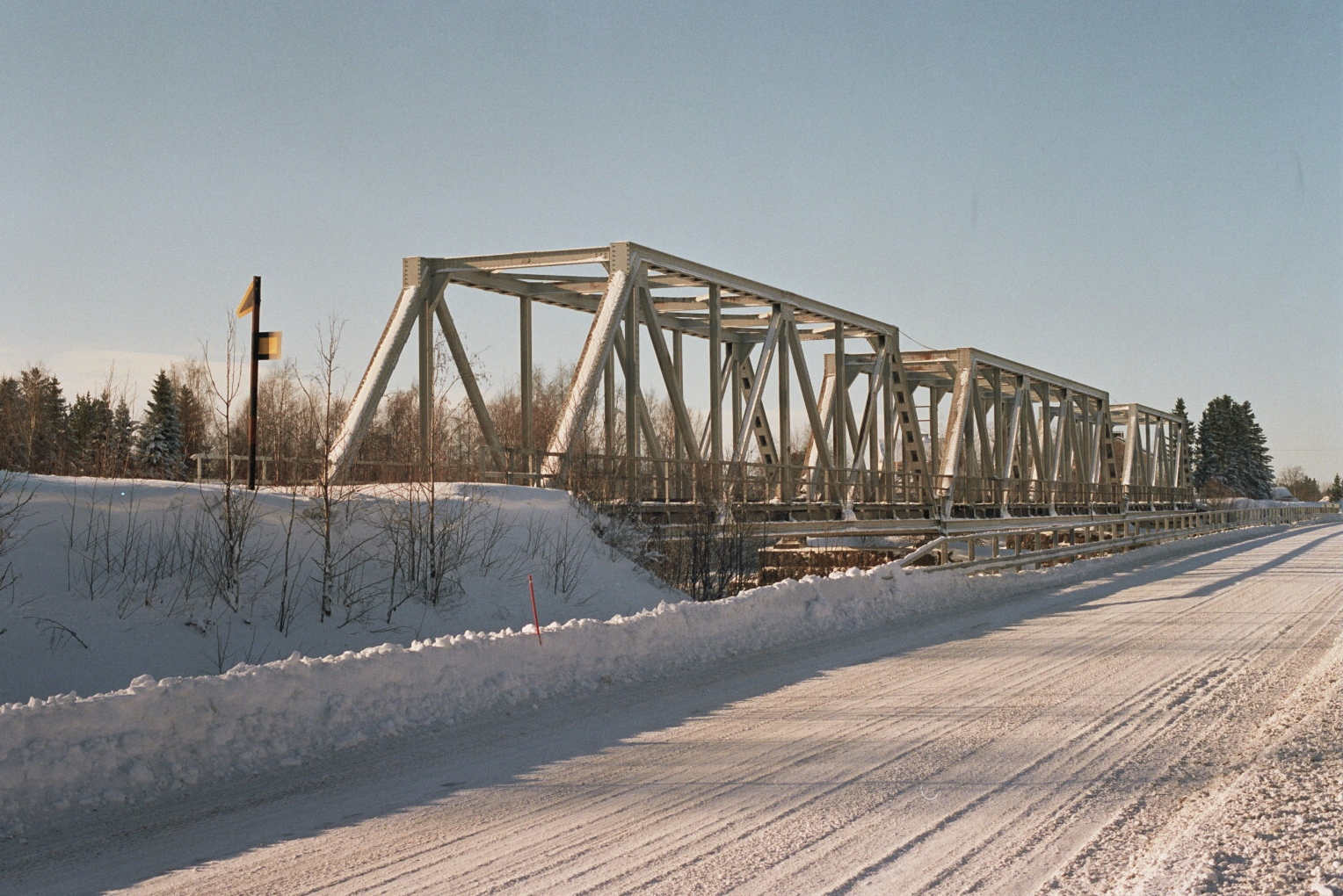 The bridges crossing the Raumo River in the Raumo area of the city of Tornio in Finland. The railway bridge was built in 1901. It also served as a road bridge until a separate road bridge seen on the right was built in the early 1990s.